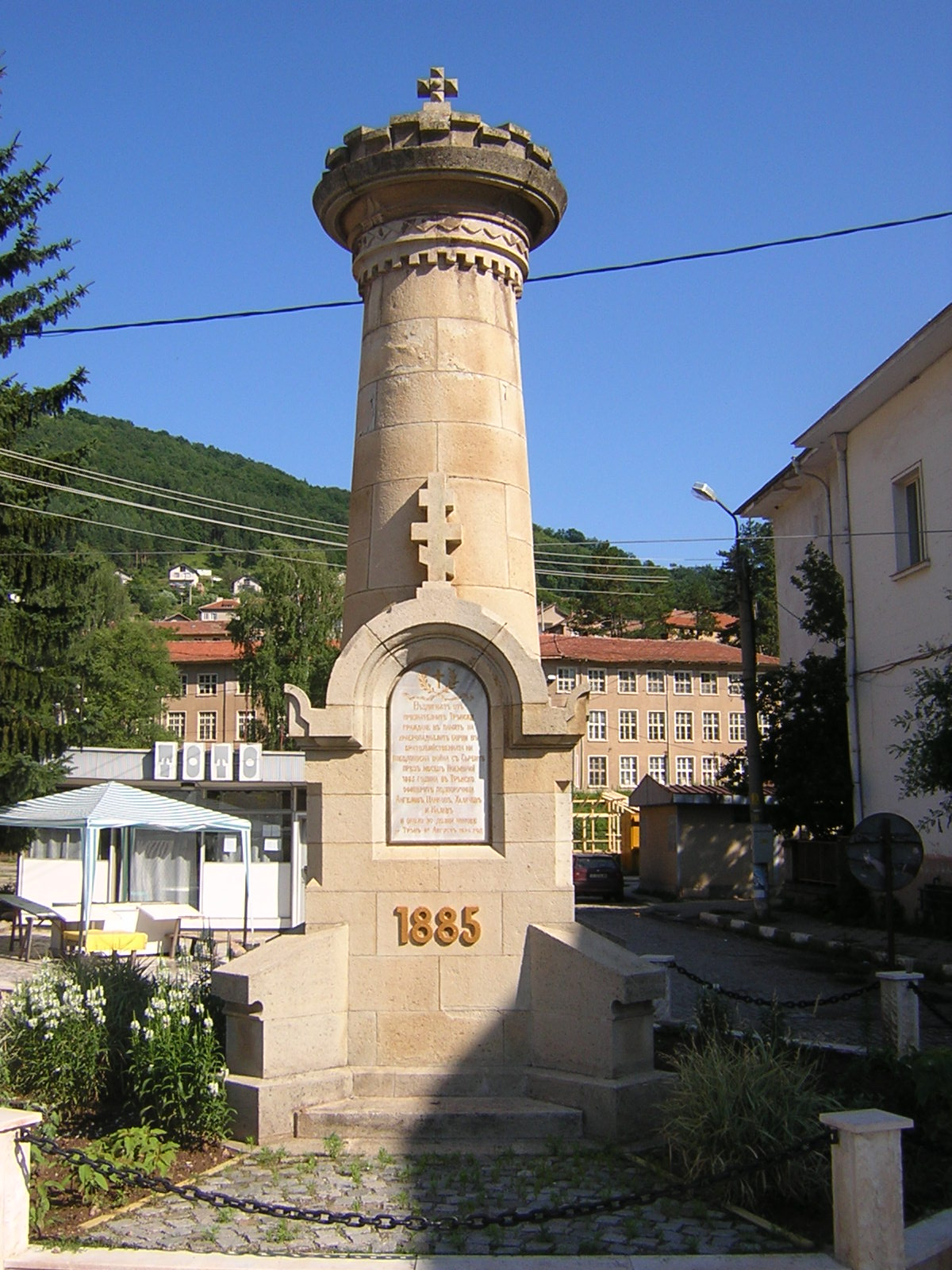 Monument to the Serbo-Bulgarian war of 1885, Tran, Bulgaria.